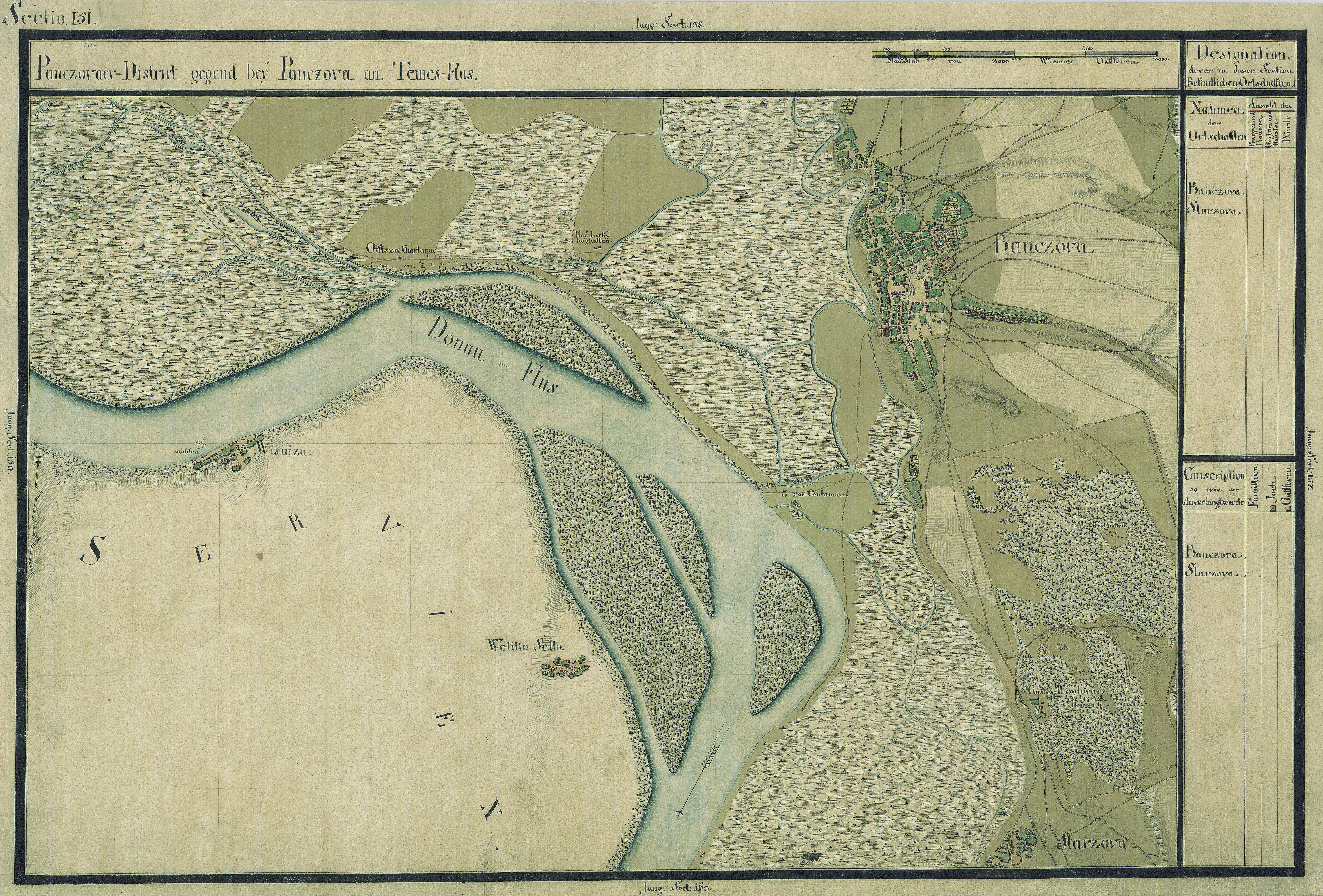 The Banat region in the cadastral maps: Josephinische Landesaufnahme, 1769-72. Josephinische Landaufnahme pg151